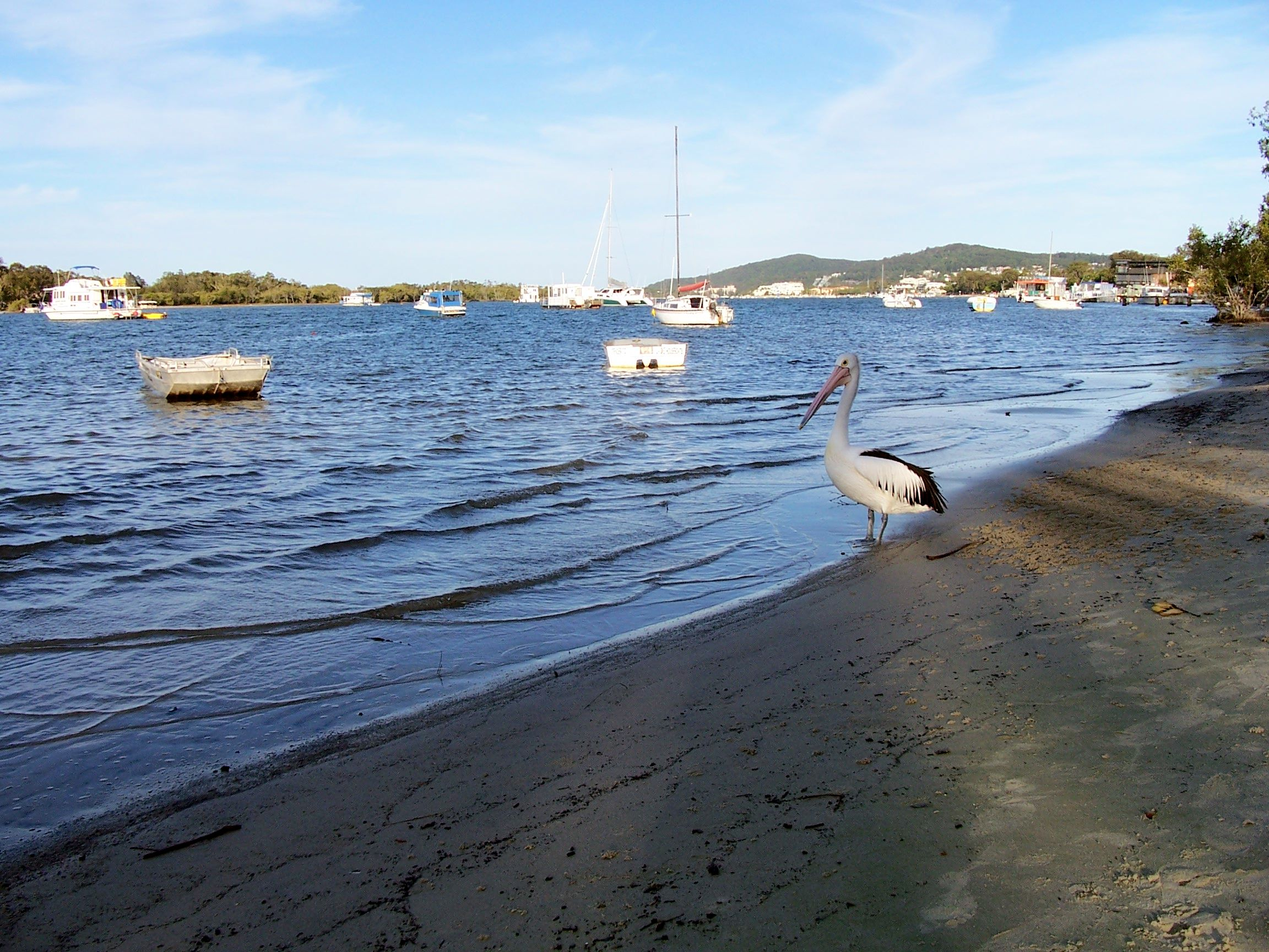 taken by Zephyr103 09:00, 23 December 2006 (UTC)